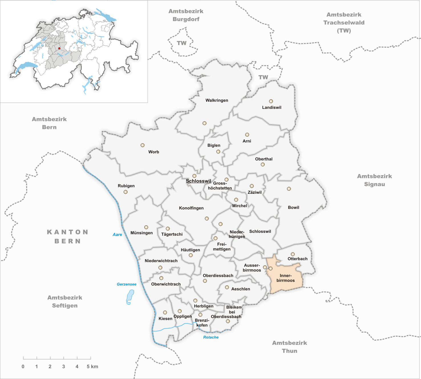 Municipality Innerbirrmoos